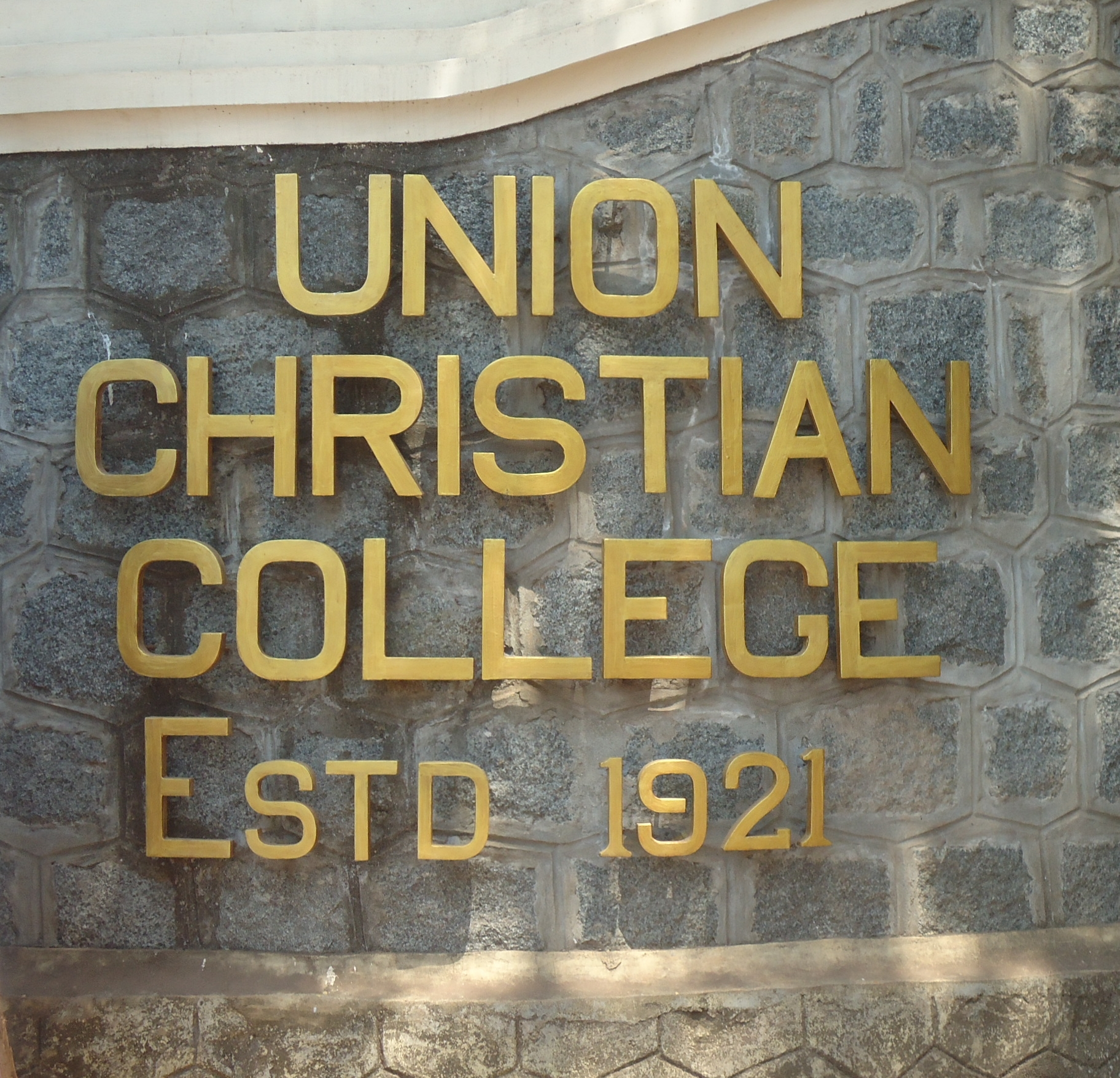 UC College Aluva Name Board